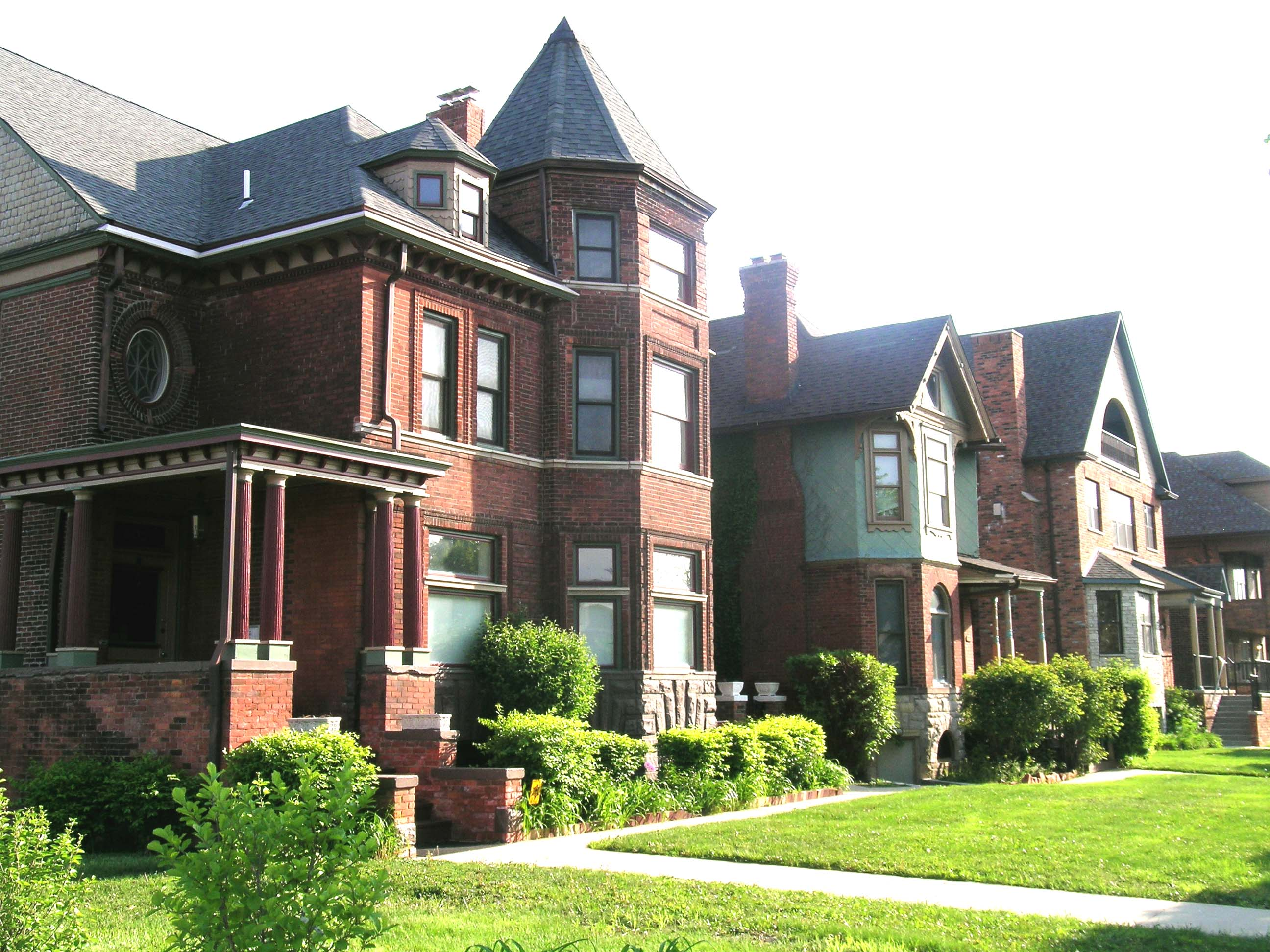 Houses in the East Ferry Avenue Historic District, Detroit, Michigan, United States.